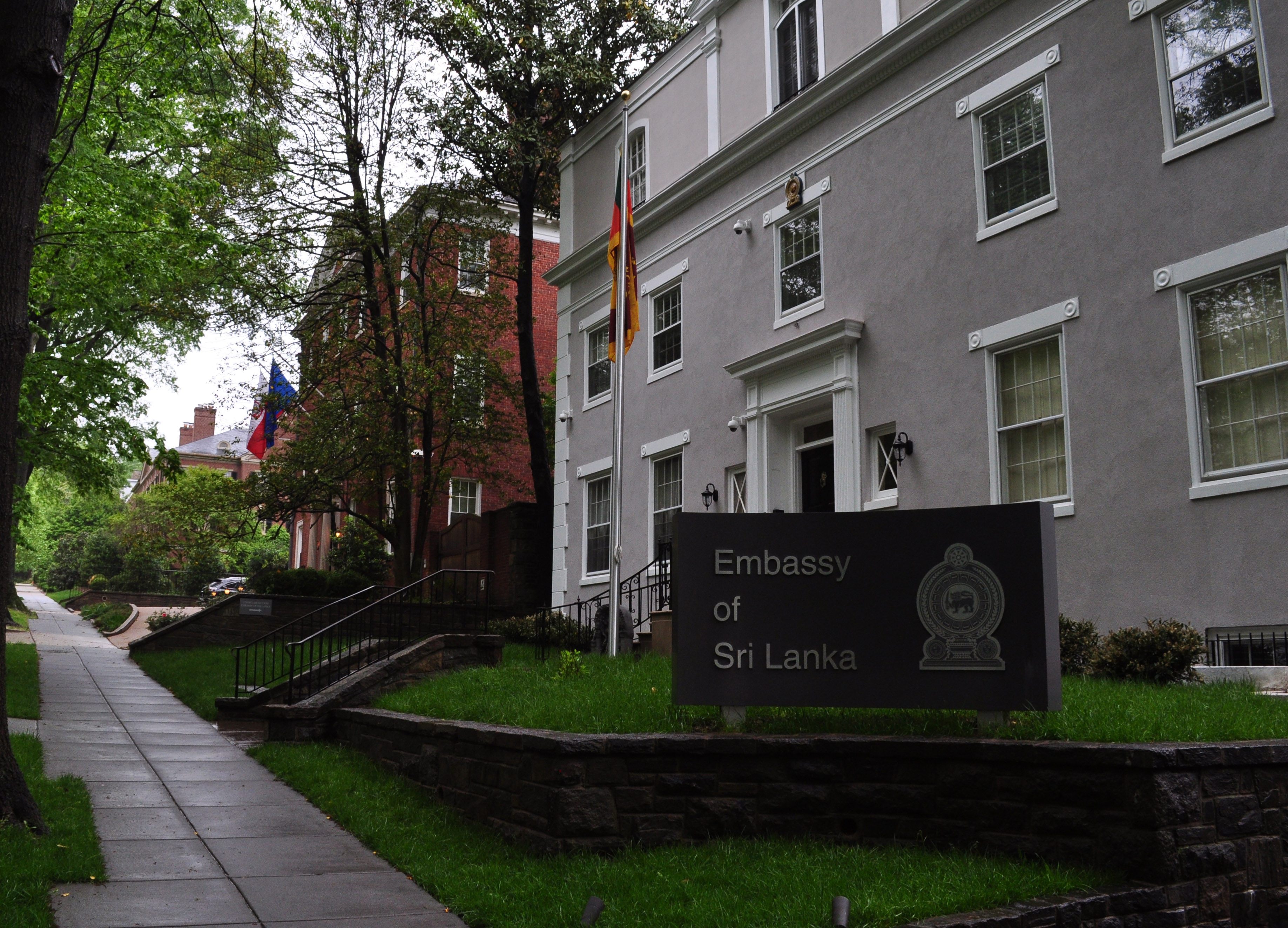 Embassy of Sri Lanka-Washington D.C.